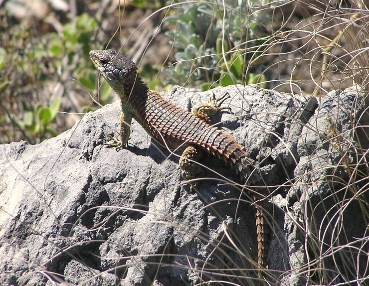 The Cape Girdled Lizard. Cordylus cordylus. Photo taken in the city of Cape Town.